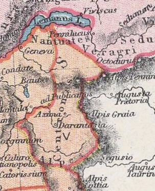 section of map: GALLIA, from "The Atlas of Ancient and Classical Geography" showing Provincia Galliae Alpes Graiae et Poeninae (V) occupied by the Ceutrones or Centrones